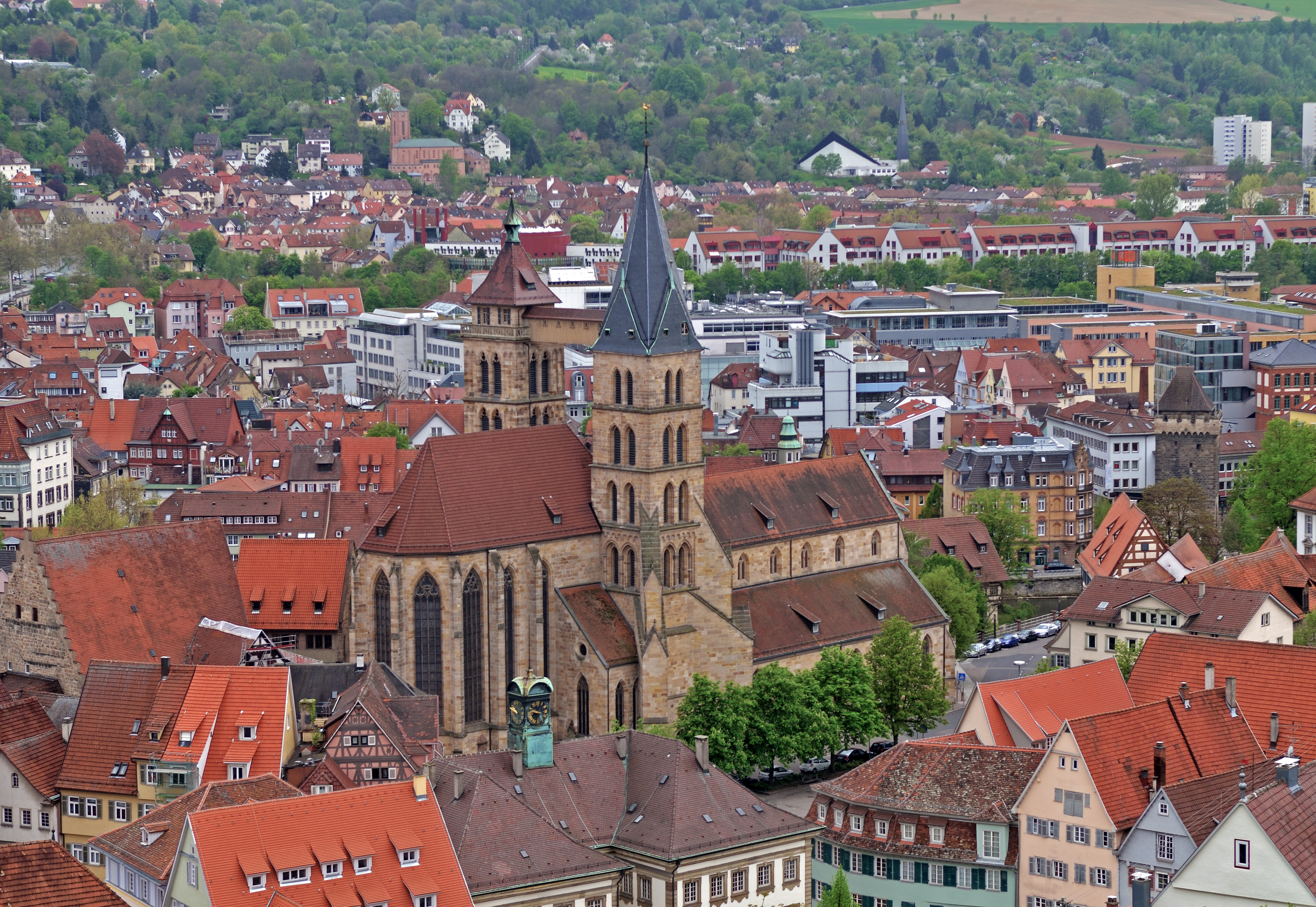 The town church St. Dionys in Esslingen as seen from the castle.